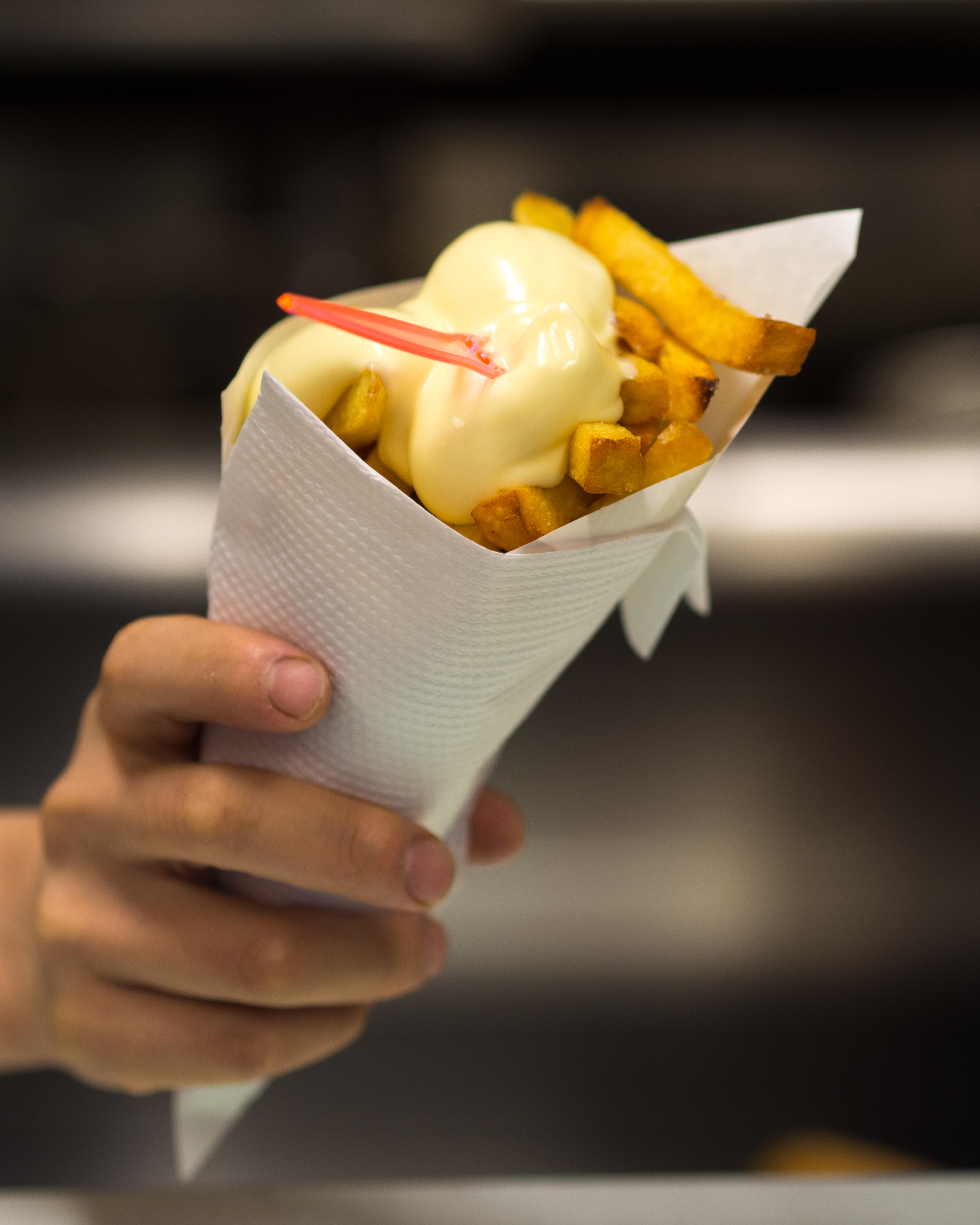 French fries with "frietsaus" served in a paper cone at a "snackbar" in The Hague.